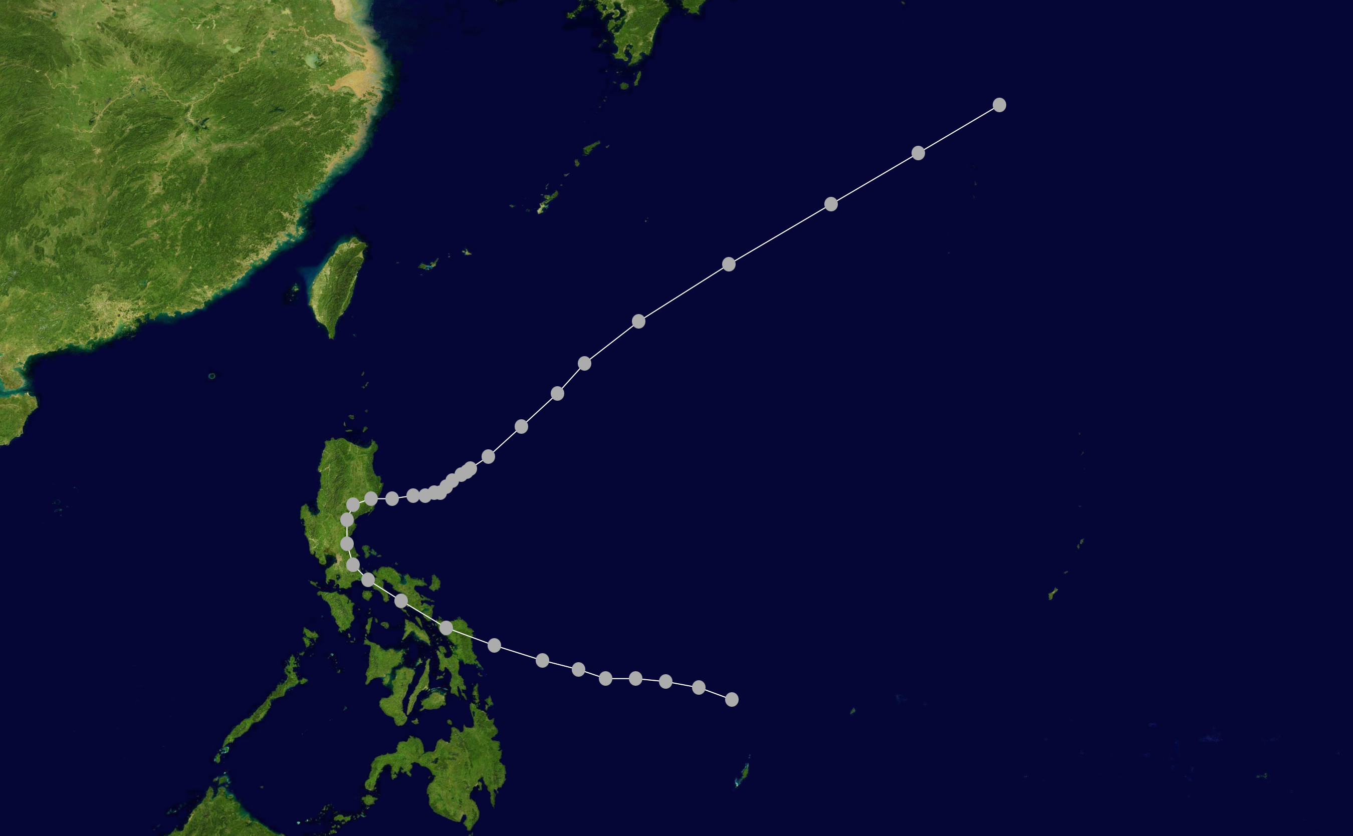 Track of 27-W from December 16, 1939 through December 25, 1939. Due to the age at witch this storm was observed from, one cannot rely on this track to be 100% accurate, but rather just a reference as to where the storm happened and the relative direction it traveled.